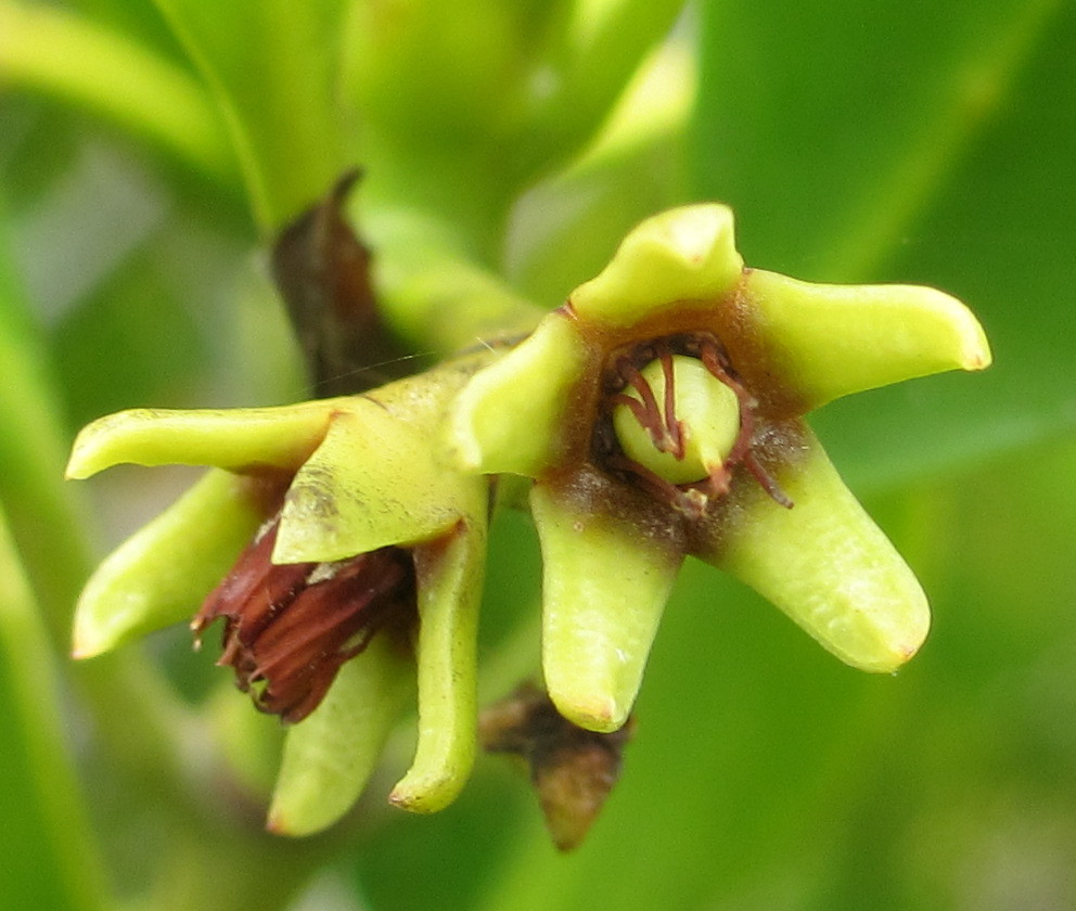 The small flowers of Ceriops tagal, on of the consituents of mangrove swamps. Here on Pemba bay in northern Mozambique.